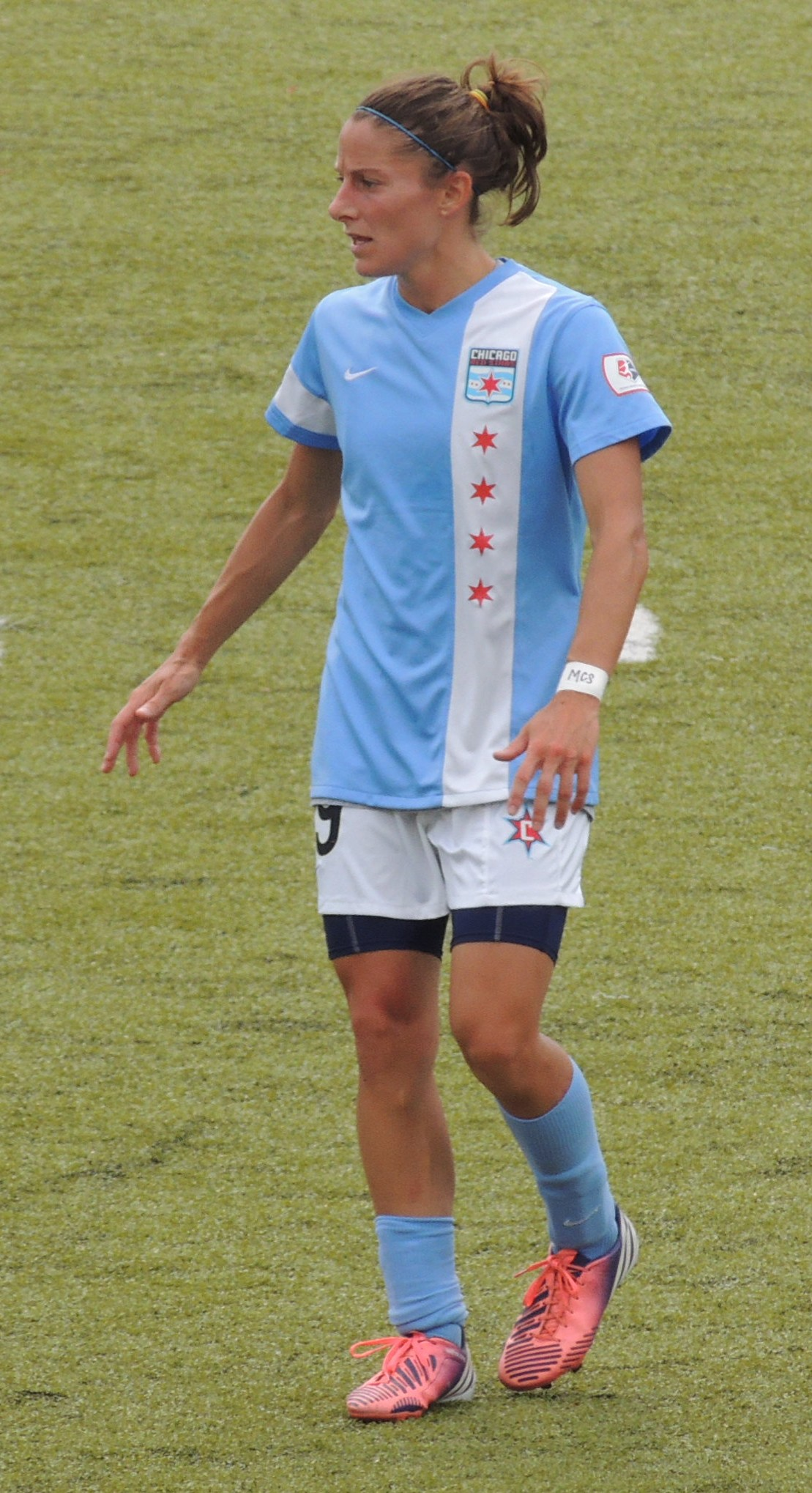 Julianne Sitch, soccer player; 2013-06-09 Chicago Red Stars vs Boston Breakers